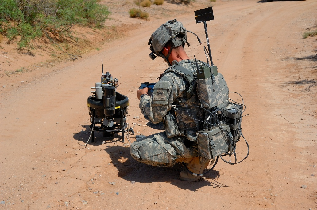 Soldiers from the Army’s Evaluation Task Force (AETF) have been training and testing equipment and capabilities that will be included in the Early Infantry Brigade Combat Team (EIBCT) Capability Package. The Class I UAV Block 0 is included in this capability set. A Soldier readies the Class I UAV Block 0 for flight during the recent CCD experiment. Learn more at Army Brigade Combat Team Modernization See more at